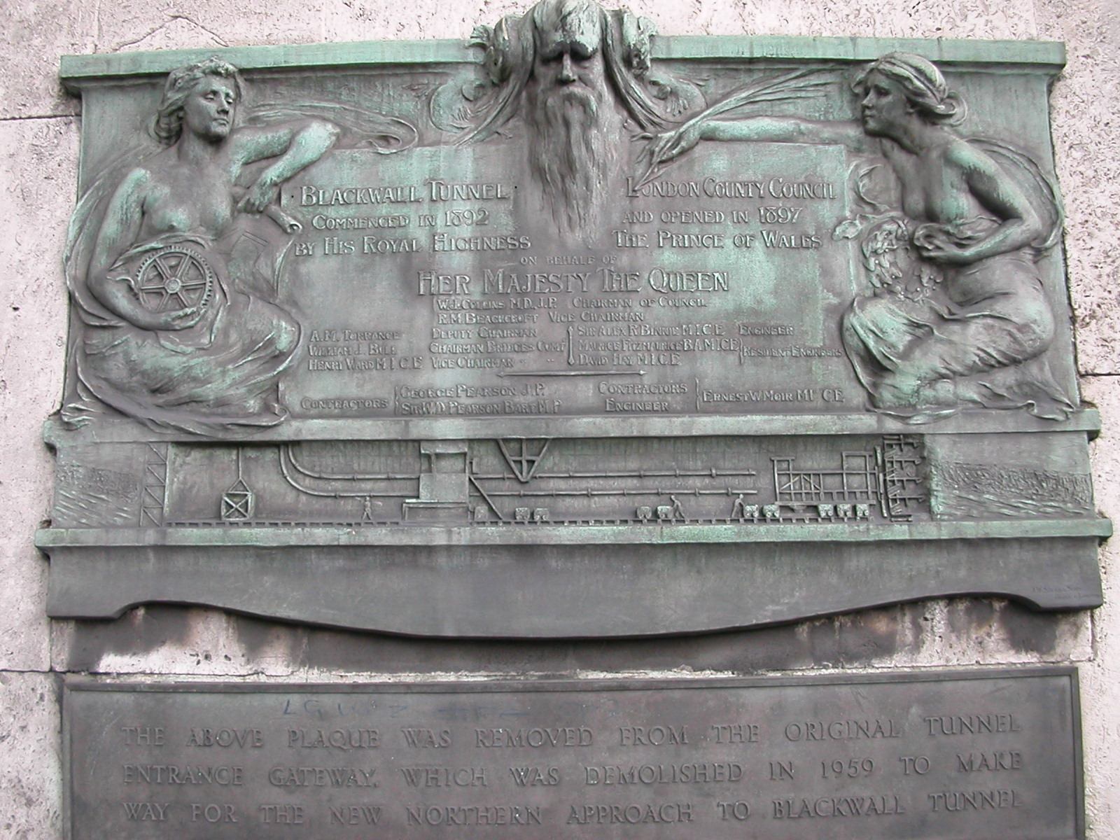 Taken by me and released to public domain